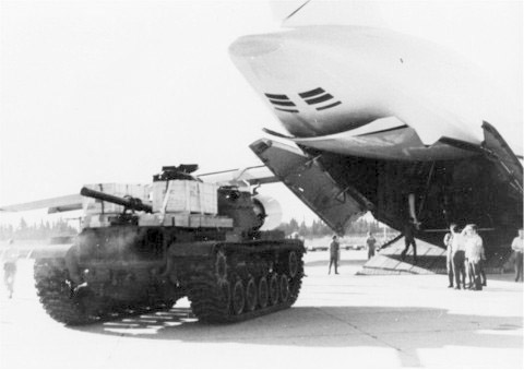 A M60 tank is unloaded from a U.S. Air Force Lockheed C-5A Galaxy in Israel during "Operation Nickel Grass", in 1973.